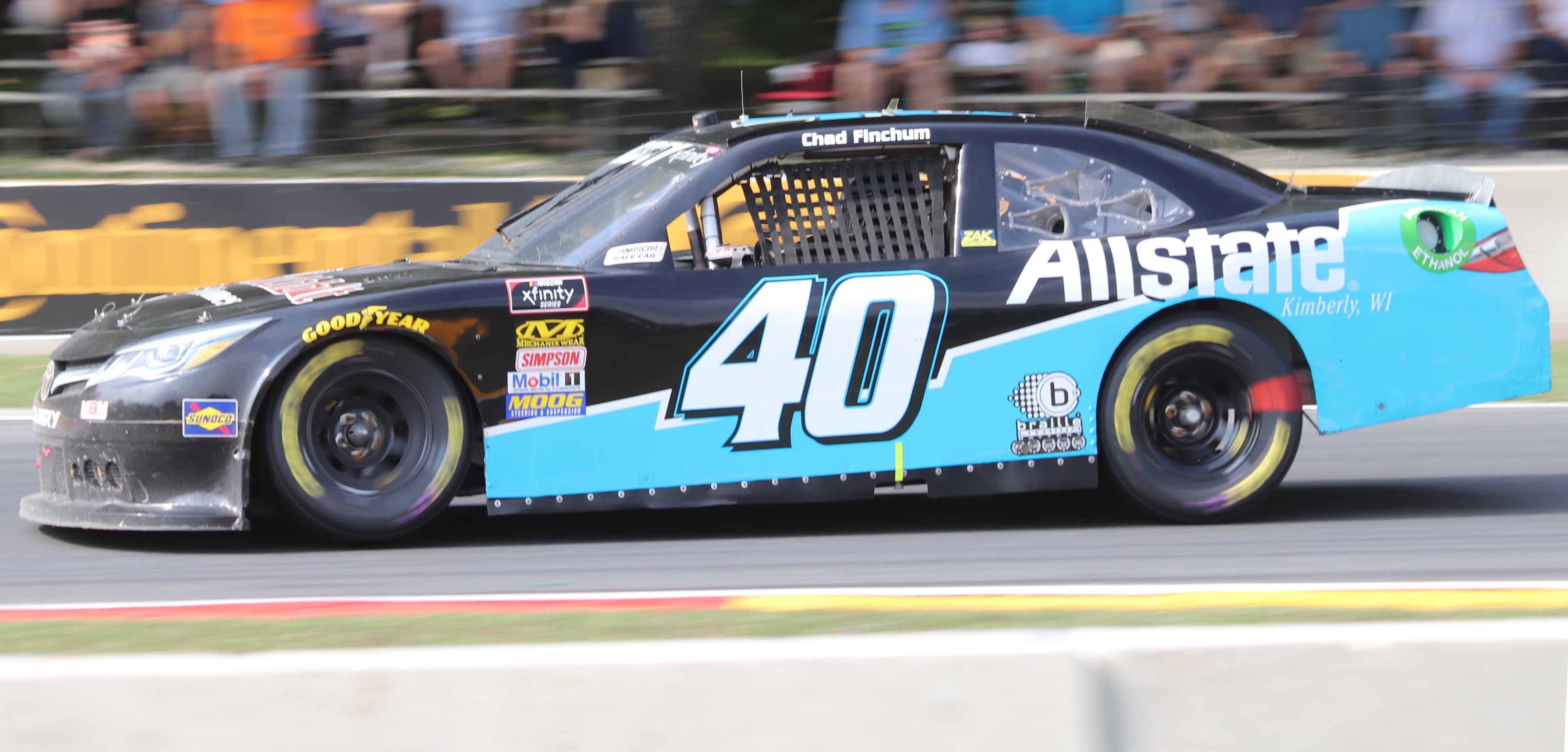 The NASCAR Xfinity Series Toyota Camry of Chad Finchum racing though turn 6 during the 2018 Johnsonville 180 at Road America.